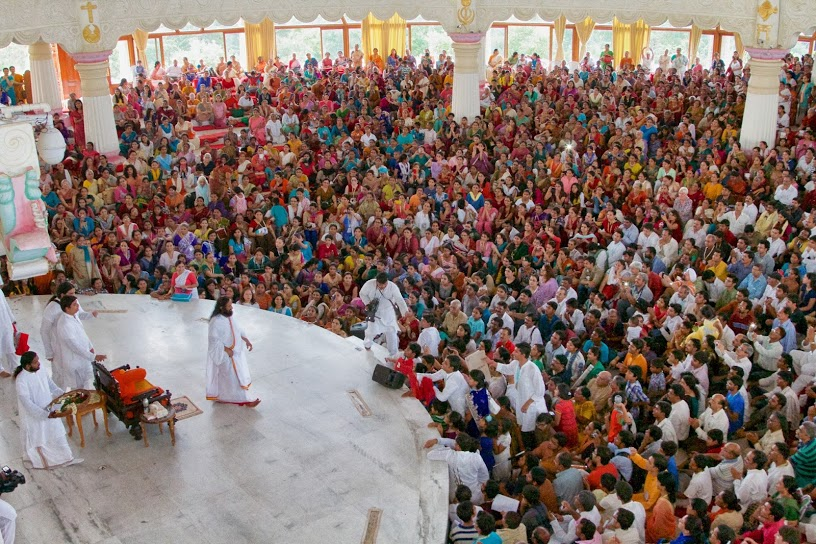 Vishalakshmi Mantap - main meditation hall at The Art of Living International Center, Bangalore